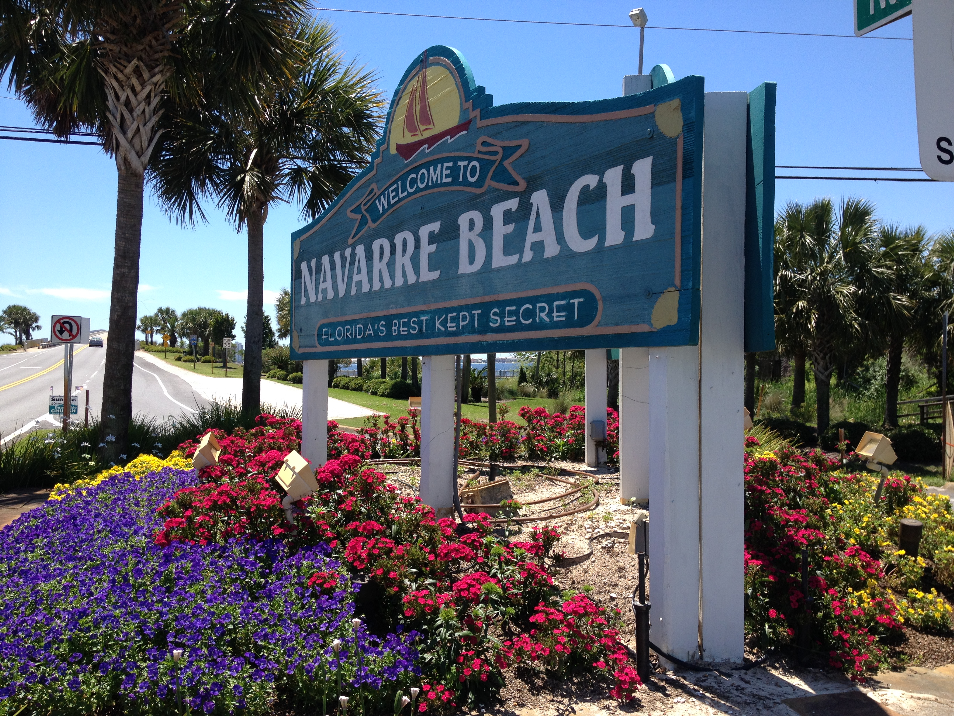 The Navarre Beach sign with spring flowers.